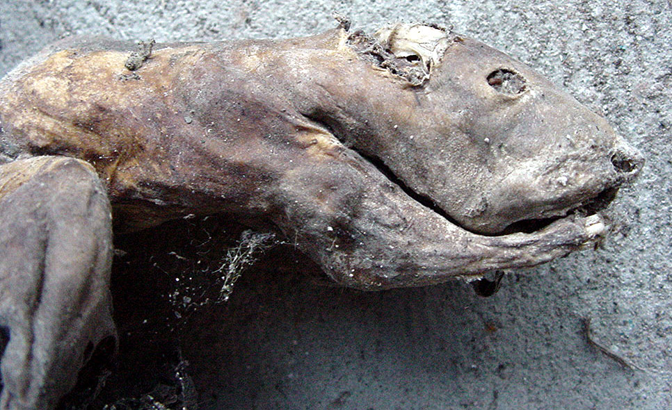 Dead rat (poisonned), and naturally mummified